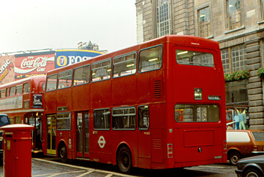 The successor to the Routemaster, also at Piccadilly Circus. It was designed for one-man operation. I believe that the pillar boxes (left) are becoming rarer.